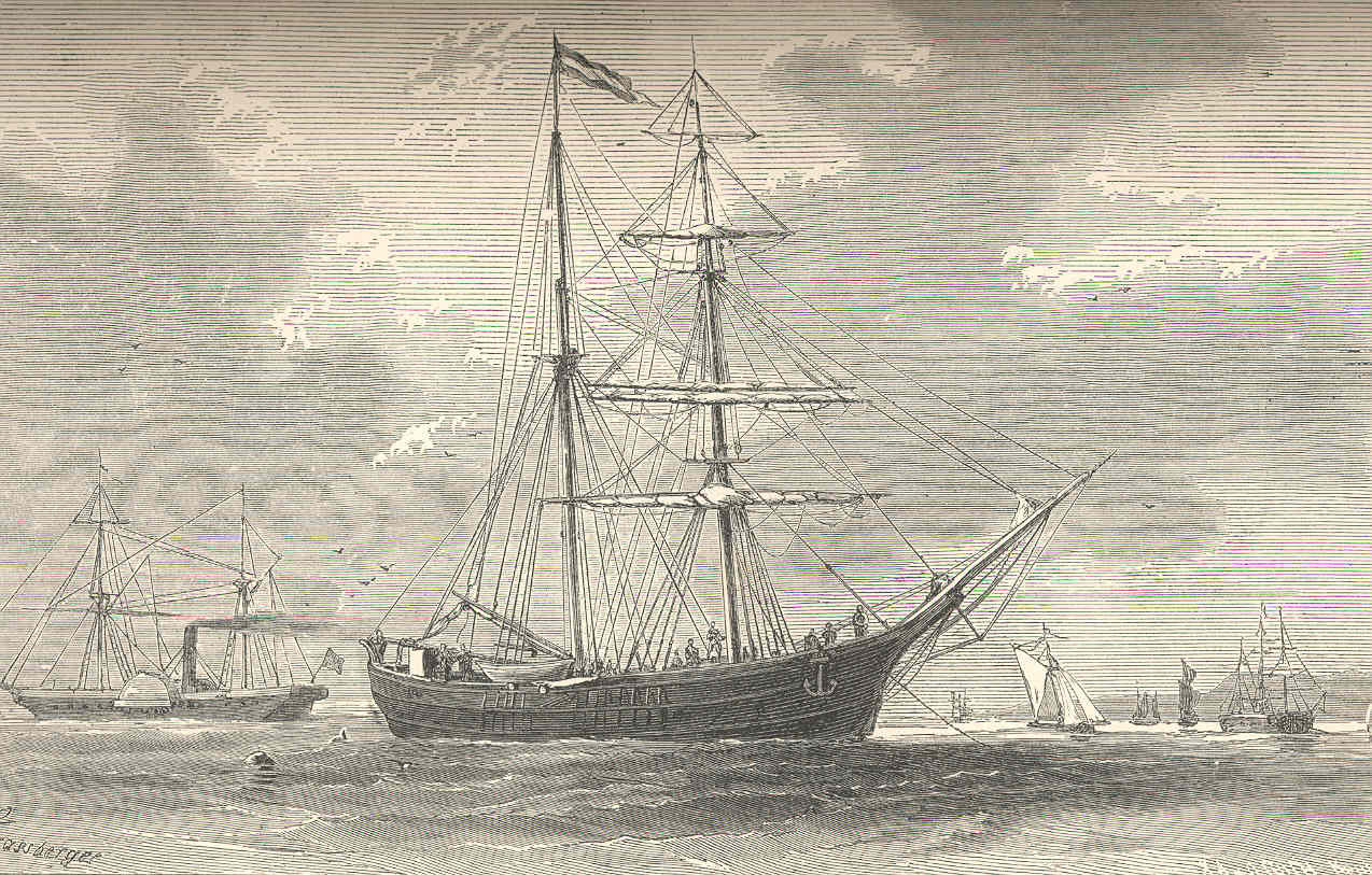 Hansa Subject: Sailing ships, Hansa (Ship) Tag: Vessels